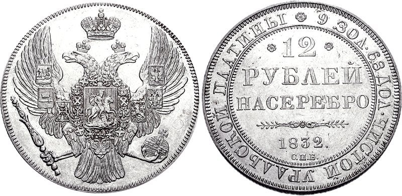 RUSSIA, Tsars of Russia. Nikolai I Pavlovich. 1825-1855. Platinum 12 Roubles (41.50 g, 12h). Sankt-Peterburg (St. Petersburg) mint. Dated 1832. Crowned double-headed imperial eagle facing with wings displayed, holding scepter and orb, coat-of-arms of Moskva framed by Order of St. Andrei the First Called on breast; arms of Kazan, Astrakhan, and Novosibirsk on right wing, Kingdom of Poland, Caucasus, and Grand Duchy of Finland on left; imperial crown above / (rose) “9 Zol• 68 Dol• Unalloyed Ural Platinum, _ 12 _/Roubles/in Silver”/(ornamental spacer)/1831/mintmark in Cyrillic in six lines across field. Bitkin 41; Uzdenikov 371; Friedberg 158; KM (C)179. EF or better, light hairlines. Very rare.